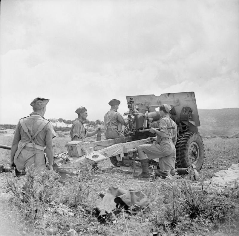 25-pdr field gun of 153rd Field Regiment (Leicestershire Yeomanry) during a practice shoot in the mountains near Tripoli in the Lebanon, 7 June 1943.